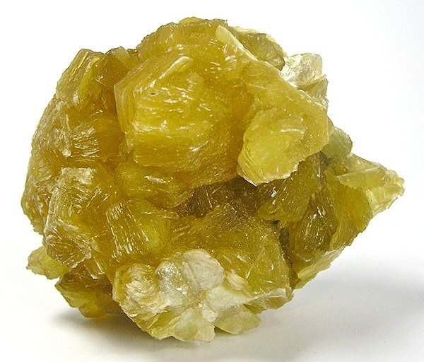 Lepidolite Locality: Itinga, Jequitinhonha valley, Minas Gerais, Southeast Region, Brazil (Locality at ) Size: 6.1 x 4.9 x 3.1 cm. A specimen of YELLOW lepidolite, from an exciting new find in Brazil! The translucent crystals on these specimens, which of course are mica and thus very thin sheets, are packed so densely that the specimens look to be almost a solid translucent yellow mineral, except for the thin crystal edges at the surface that show that what you are really looking at are the edges of thousands of tightly packed sheety crystals. Beautiful stuff!